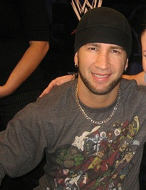 A cropped version of File:Helms @ Wrestlemania Axxess 2009.jpg to remove the fan. The image shows professional wrestler Gregory Helms posing for a photo at the WWE WrestleMania Axxess convention on April 4, 2009.